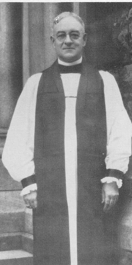 James Matthew Maxon (1875-1948), 4th Episcopal Bishop of Tennessee (1935-1947)